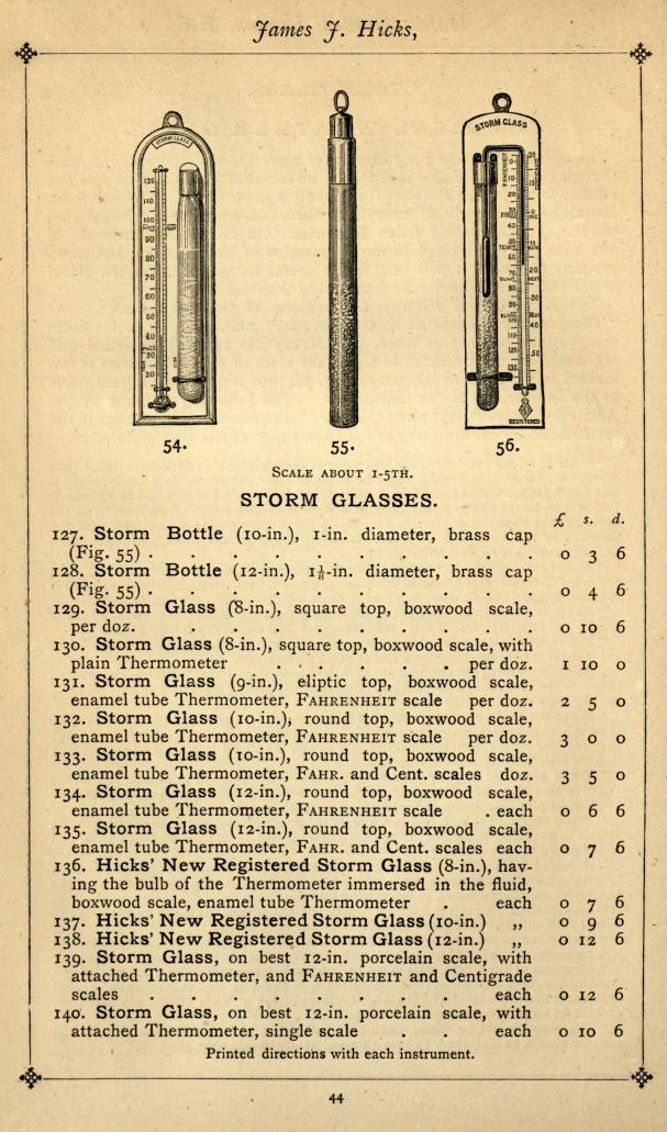 Catalogue of Storm glasses from J. Hicks